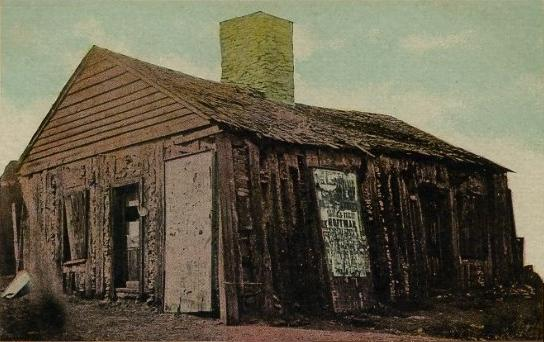 First Courthouse, St. Louis, MO; from a c. 1915 postcard. It would be replaced by the permanent (not rented) courthouse completed in 1833. Also known as The Bienvenue House. This house stood on the northwest corner of Third and Plum streets in St.Louis. Built in 1786 and demolished in 1875, the 20' x 25' house originally had a galerie on all sides and probably a tall pavilion roof. It's ruined condition shows the palisaded wall construction ( poteaux en terre ) characteristic of most eighteenth -century houses in the region. This site is now part of the Gateway Arch grounds.